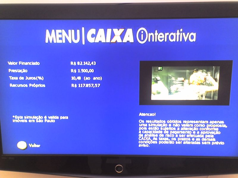 Example of t-banking application